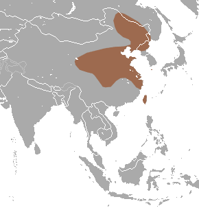 Asian Lesser White-toothed Shrew (Crocidura shantungensis) range